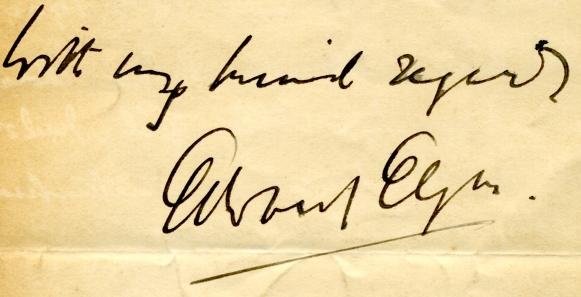 Portion of a memo found in a vocal score of "The Dream of Gerontius"